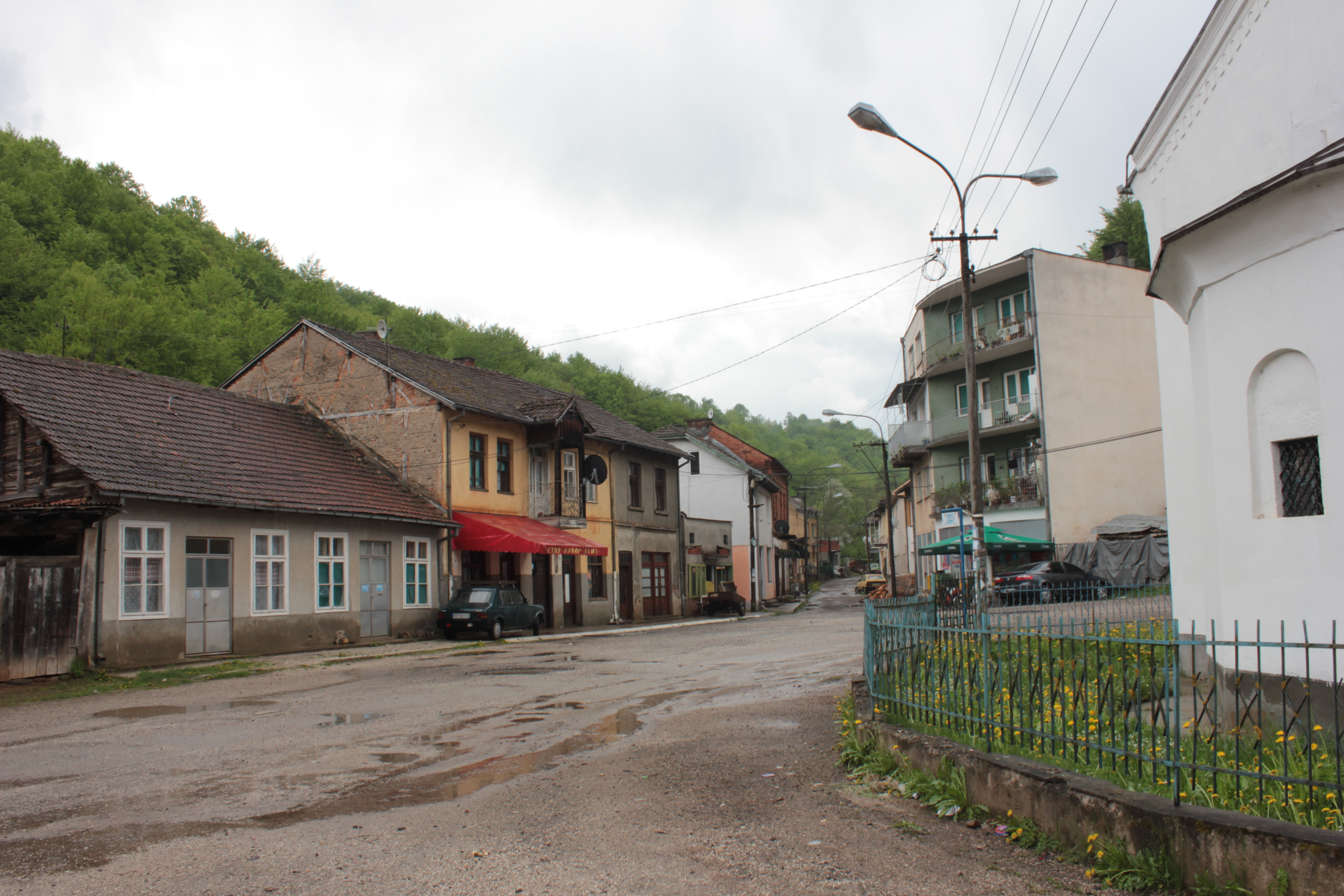 Klisura central square